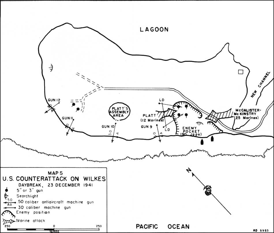 Map of the US counterattack on Wilkes Island, Wake atoll, daybreak, 23 December 1941.